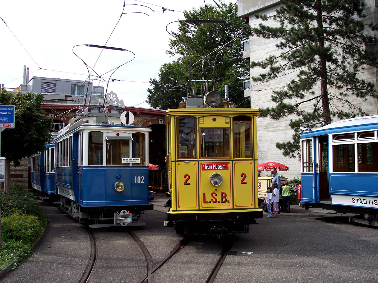 Trams in Zürich: Preserved urban and interurban trams on display outside the old tram museum at Wartau. The museum has since relocated to Burgwies.